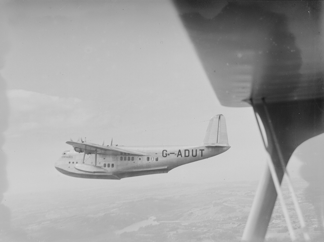 In the foreground the plane the photographer is in is visible. Below the G-ADUT is land with water systems.